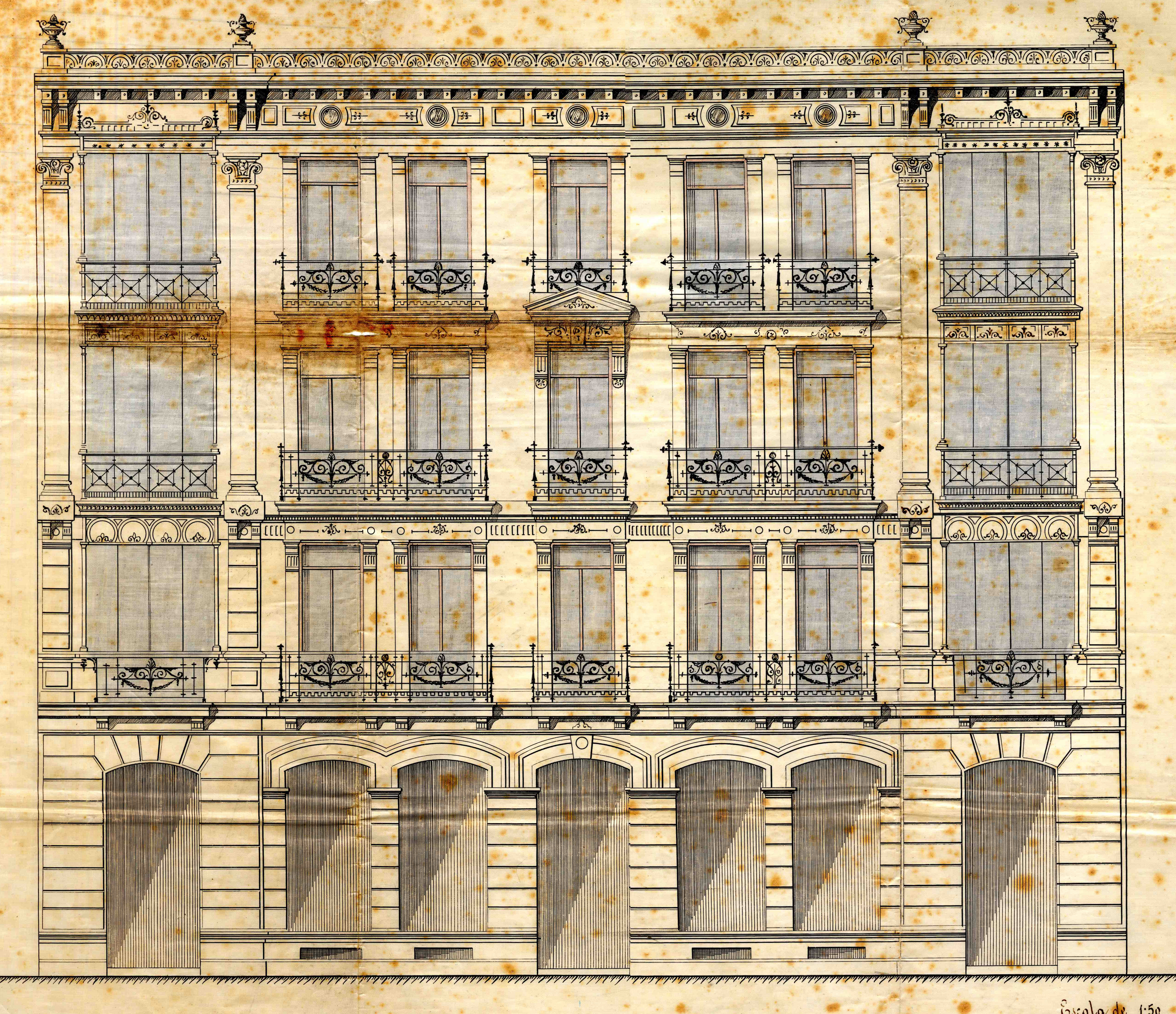 Don Oliverio's house in Oviedo